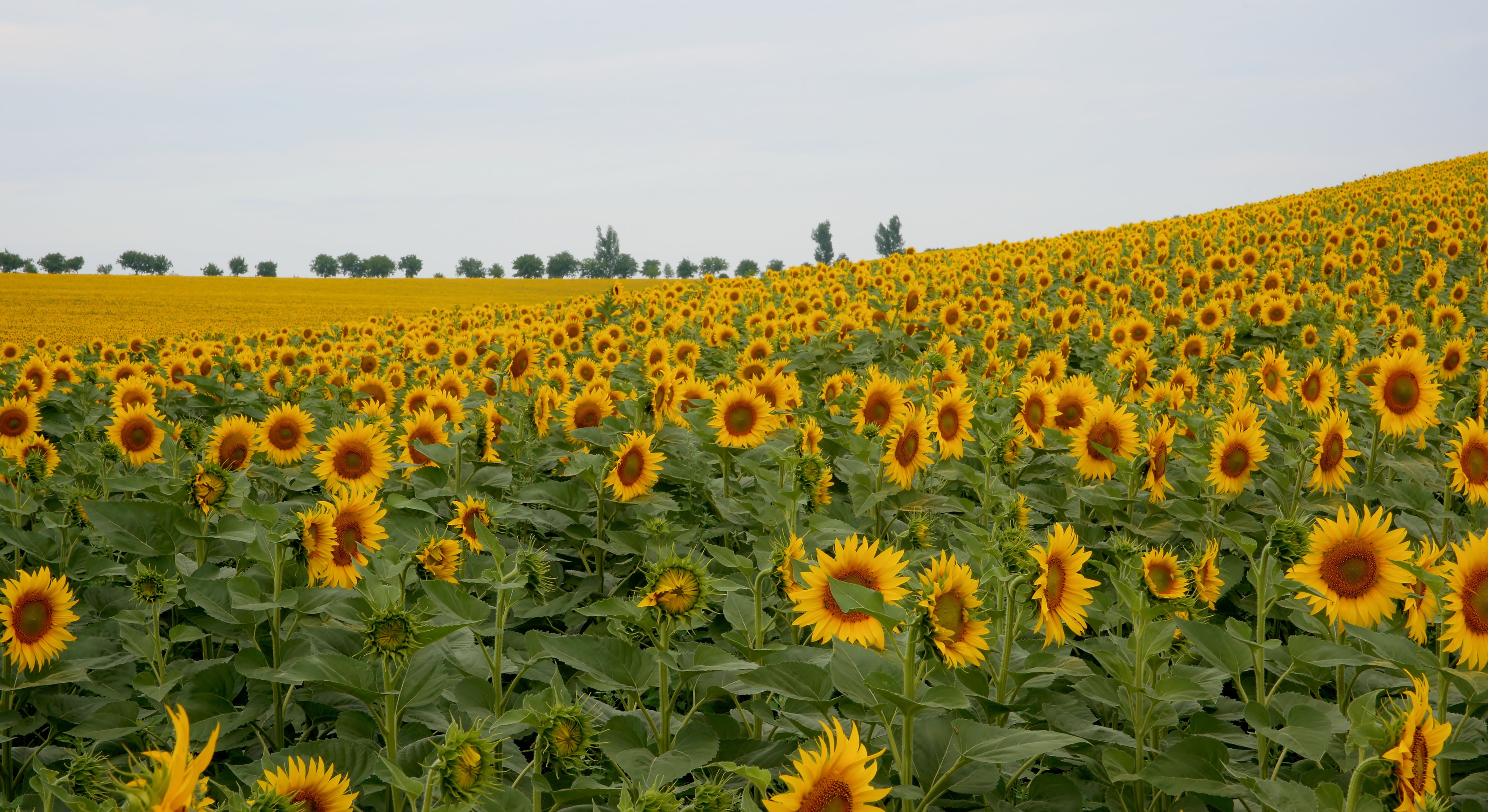 On costly with sunflower - Pe costisa cu floarea soarelui